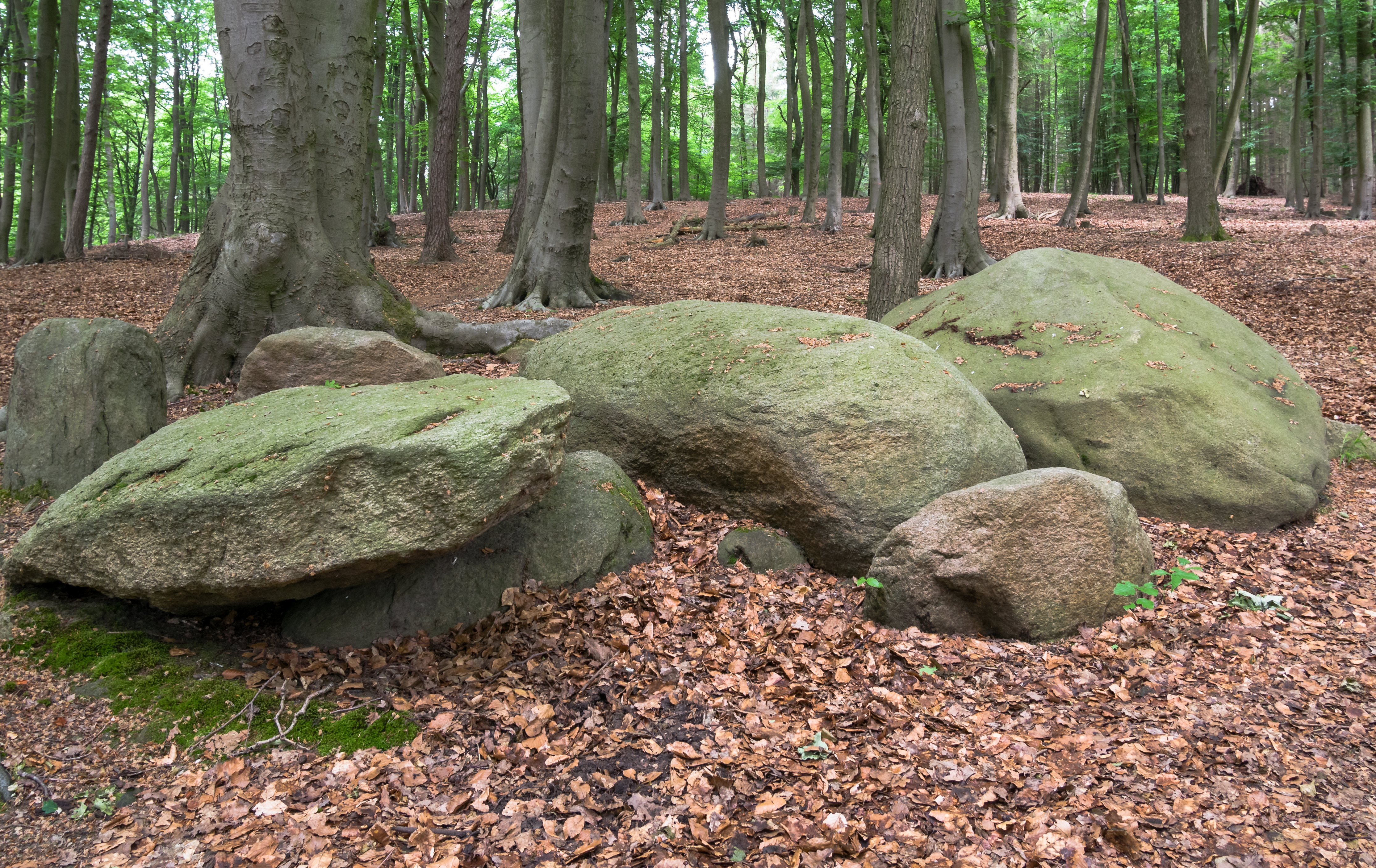 Dolmen "Devil's Dough Trough". Belm-Vehrte, Osnabrück Land, Lower Saxony, Germany